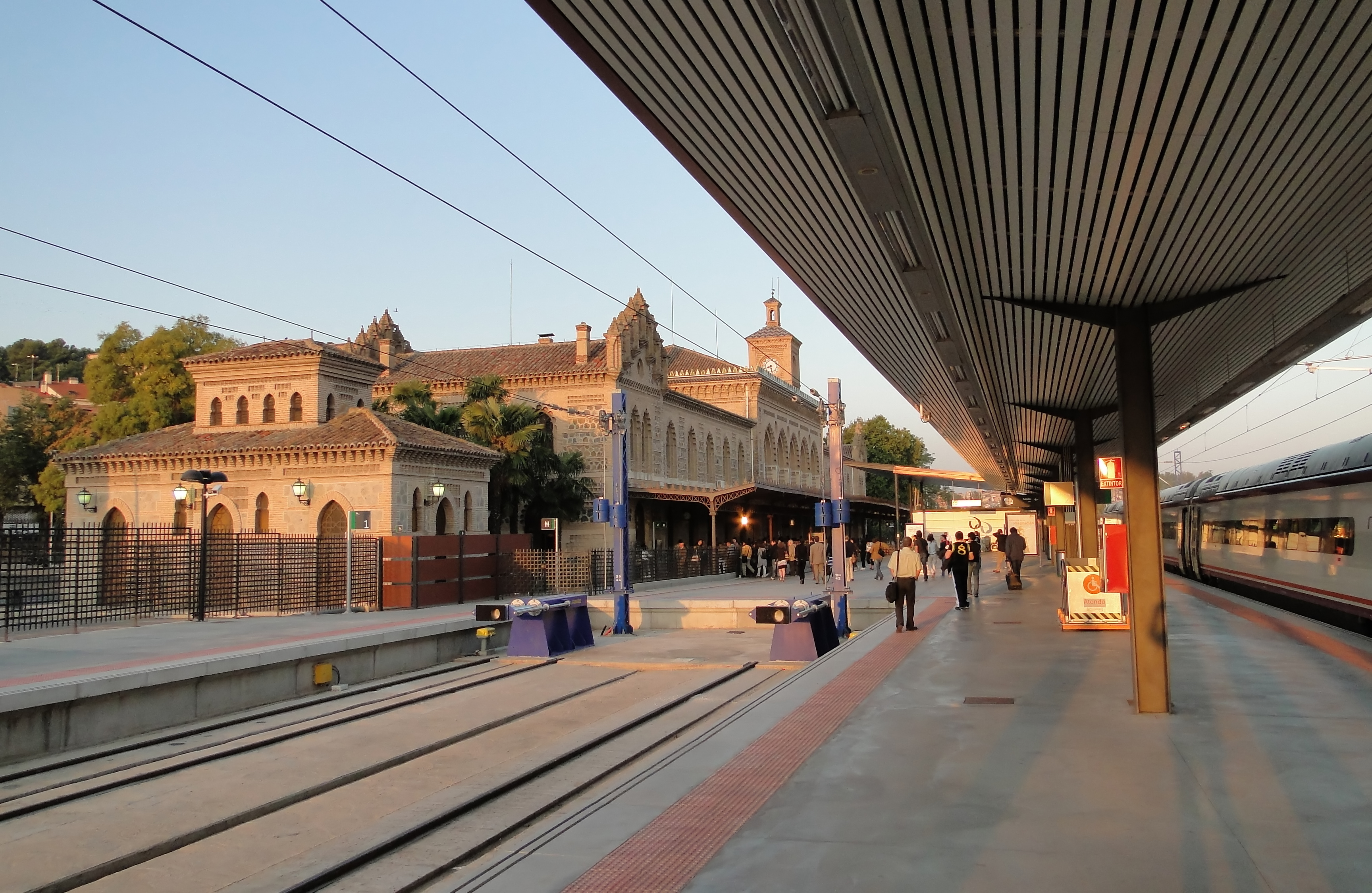 Train station of Toledo, Spain